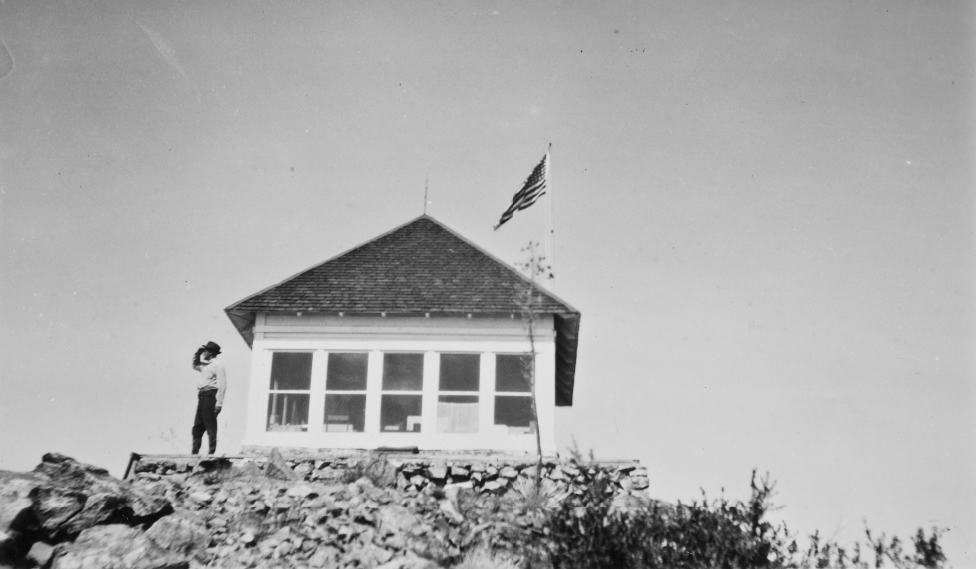 Arthur Stone atop Cone Peak Lookout Station 1928